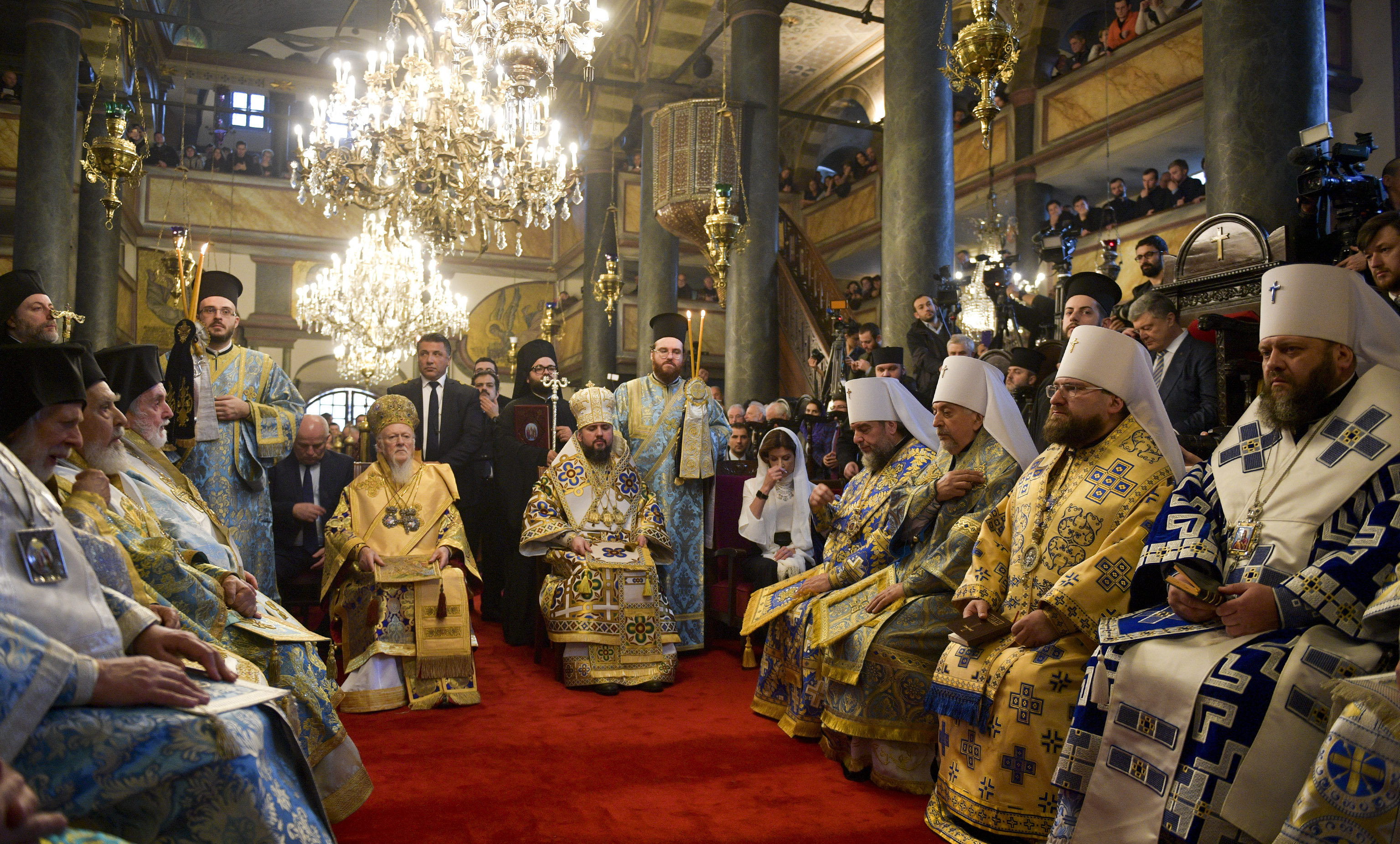 Working visit of the President of Ukraine Petro Poroshenko to the Turkish Republic